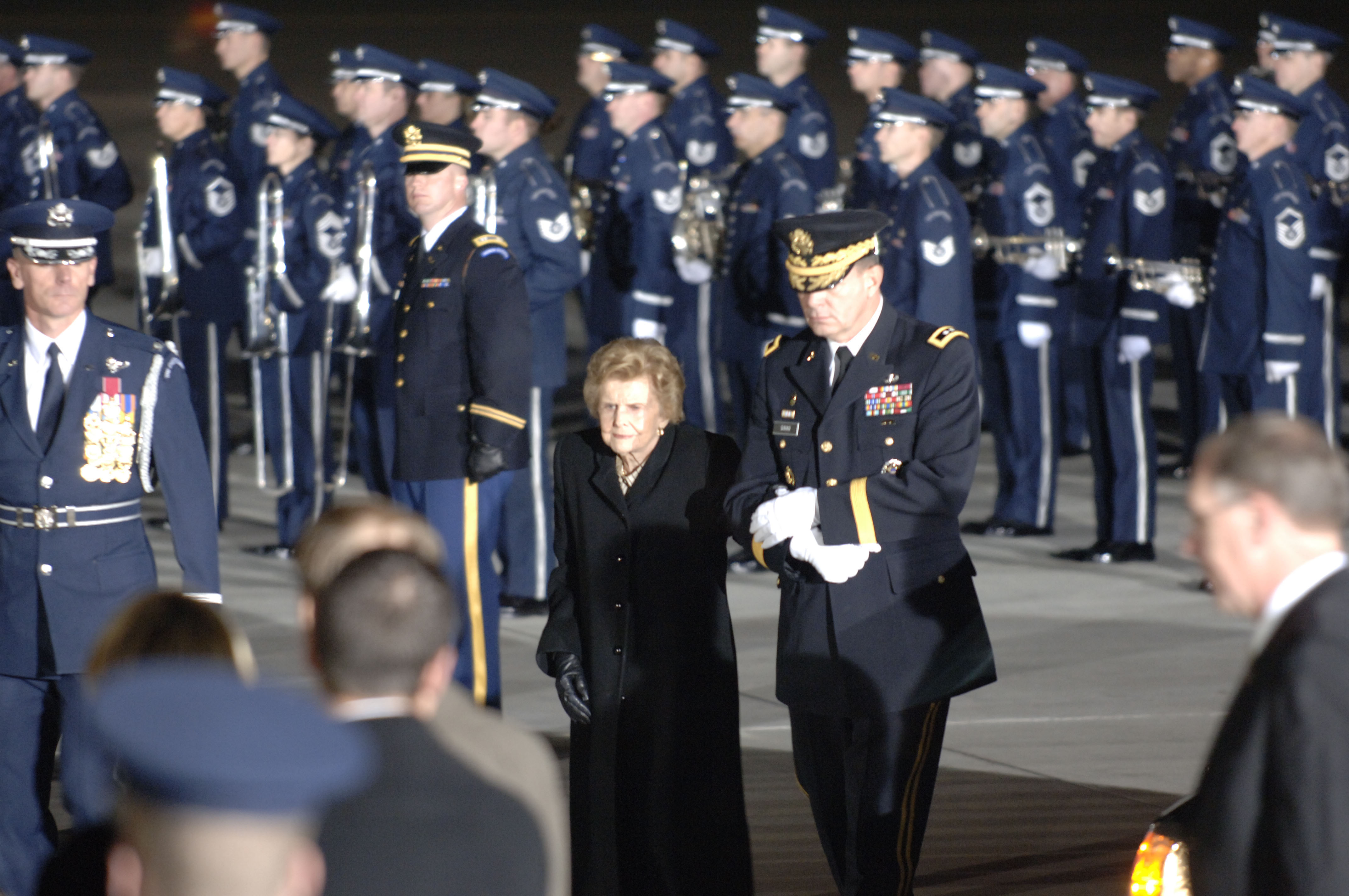 Army Major General Guy C. Swan III, commanding general of the Joint Forces Headquarters-National Capital Region/Military District of Washington, escorts Betty Ford during the state funeral of her husband, former U.S. president Gerald Ford.